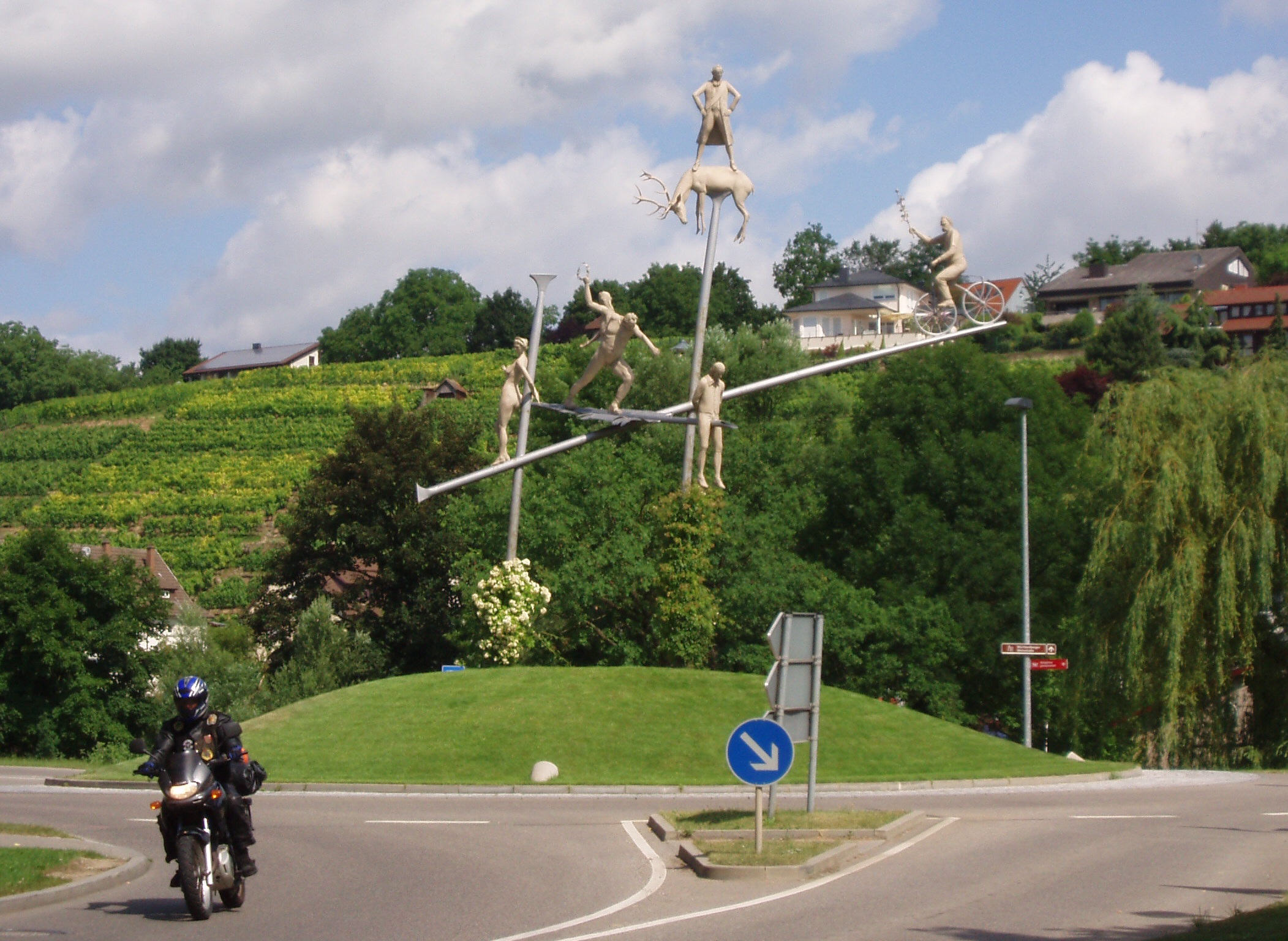 Peter Lenk, Hölderlin im Kreisverkehr